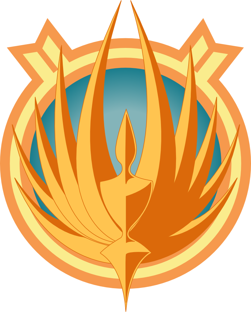 Seal of the Twelve Colonies of Kobol that appears on the flag and seats of the Colonial One.